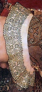 [Hans Holbein the Younger , 1537. Full portrait here: Image:JaneSeymour.jpg. Image from